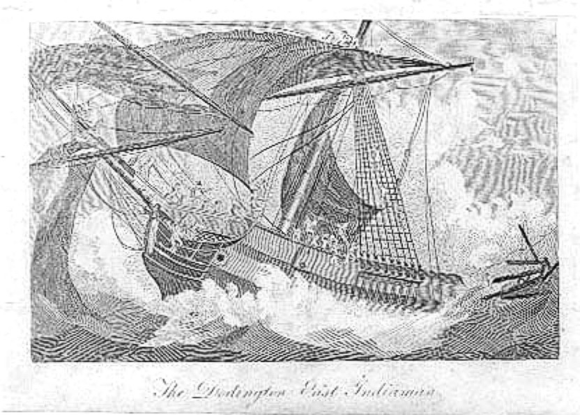 Engraving of the "Dodington", an English East Indiaman that sank off the South African coast on 17 July 1755.